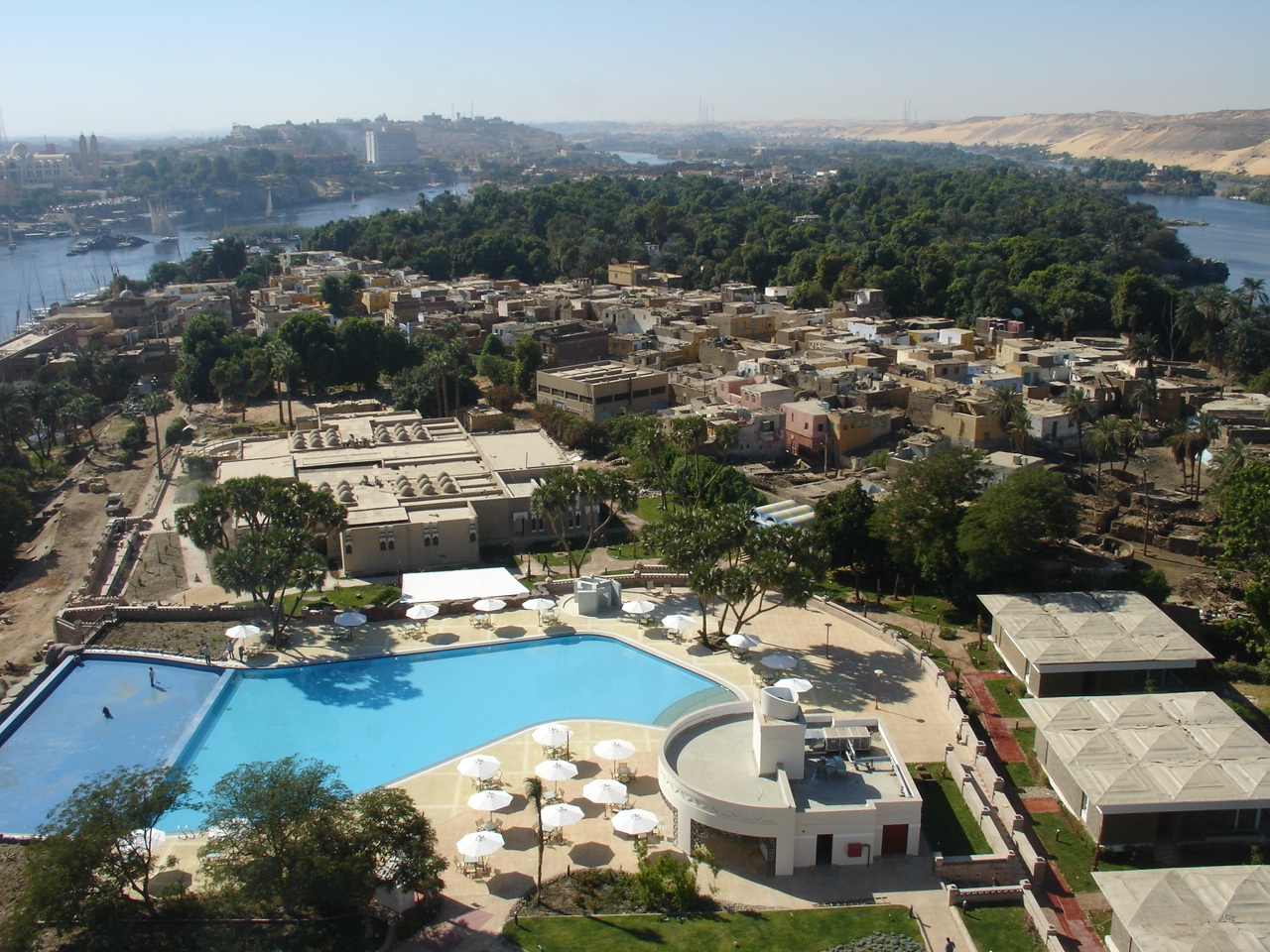 Elephantine Island in Aswan, Egypt (as seen from the tower of Moevenpick Hotel).